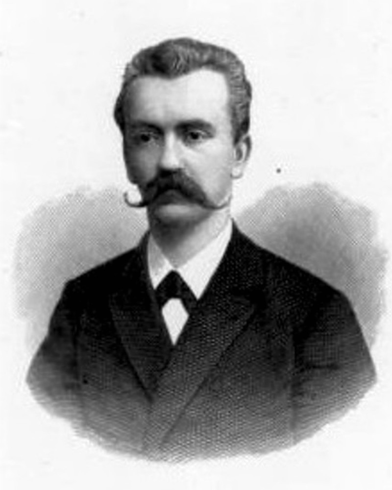 Wilhelm Posse